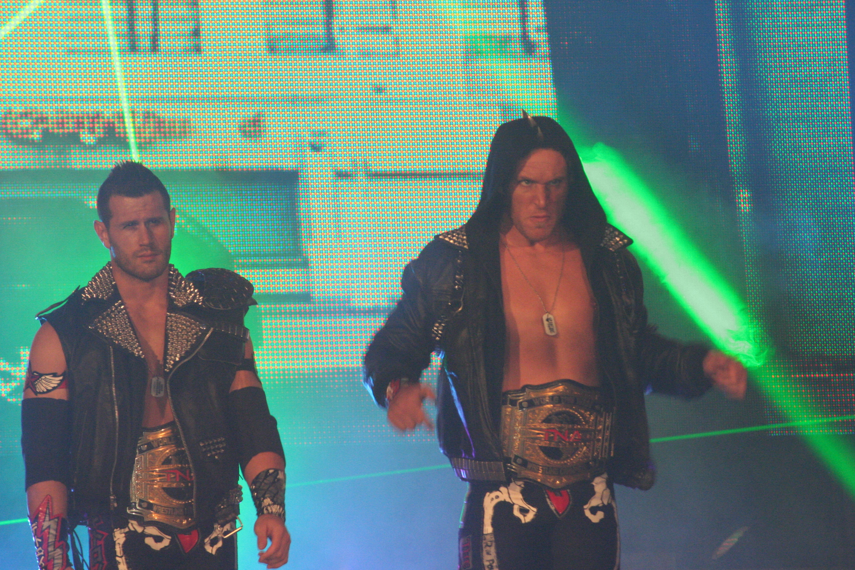 Professional wrestlers Alex Shelley and Chris Sabin at a TNA Impact! taping